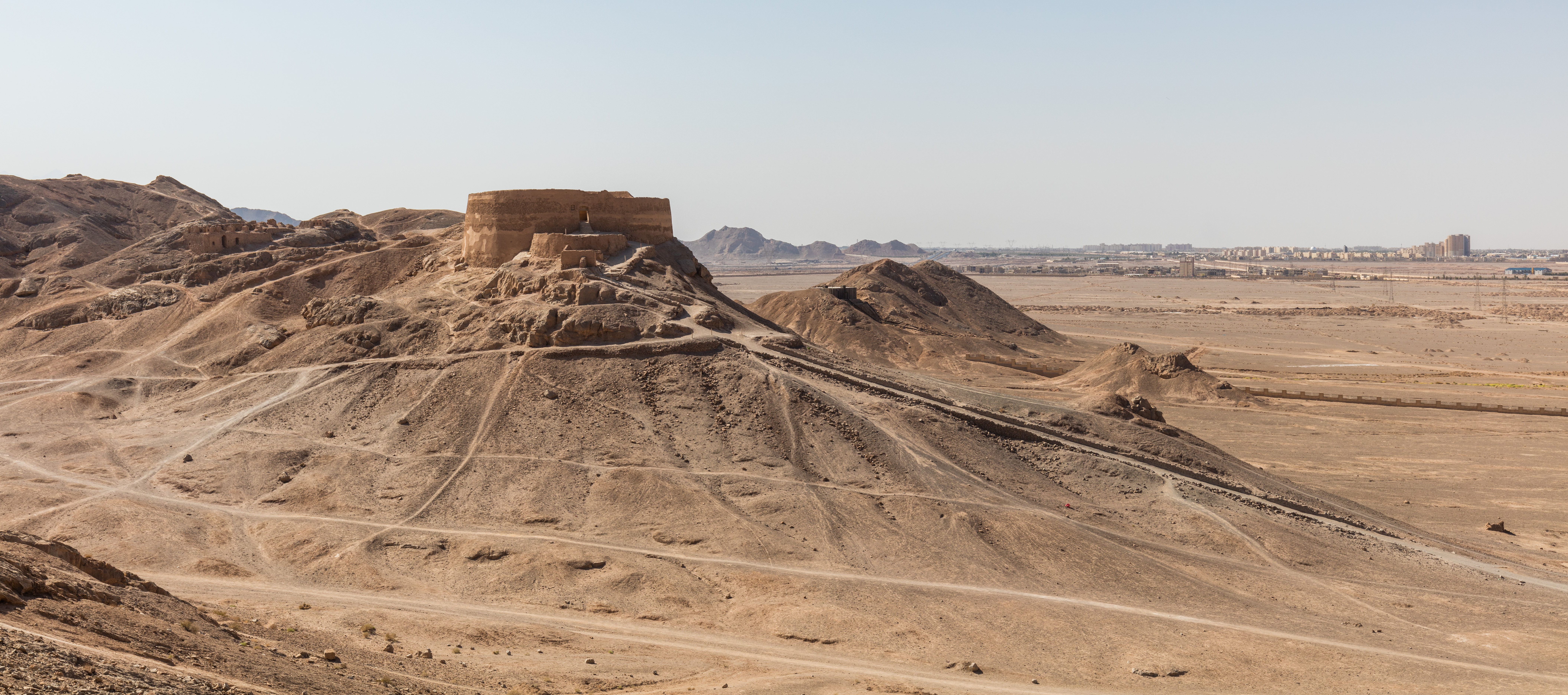 Tower of Silence, Yazd, Iran